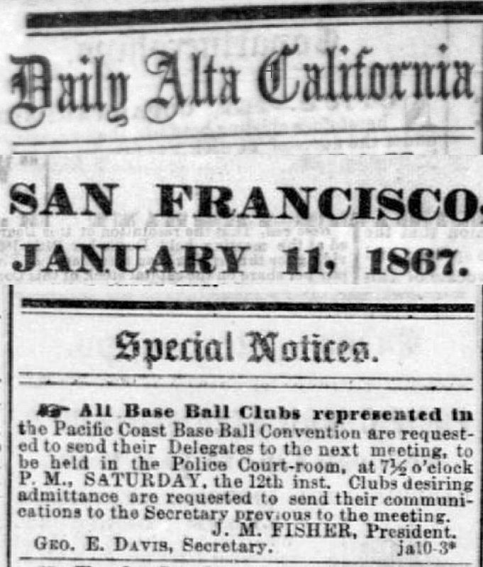 clipping of special notice published January 1867 describing formation of the first baseball league in California